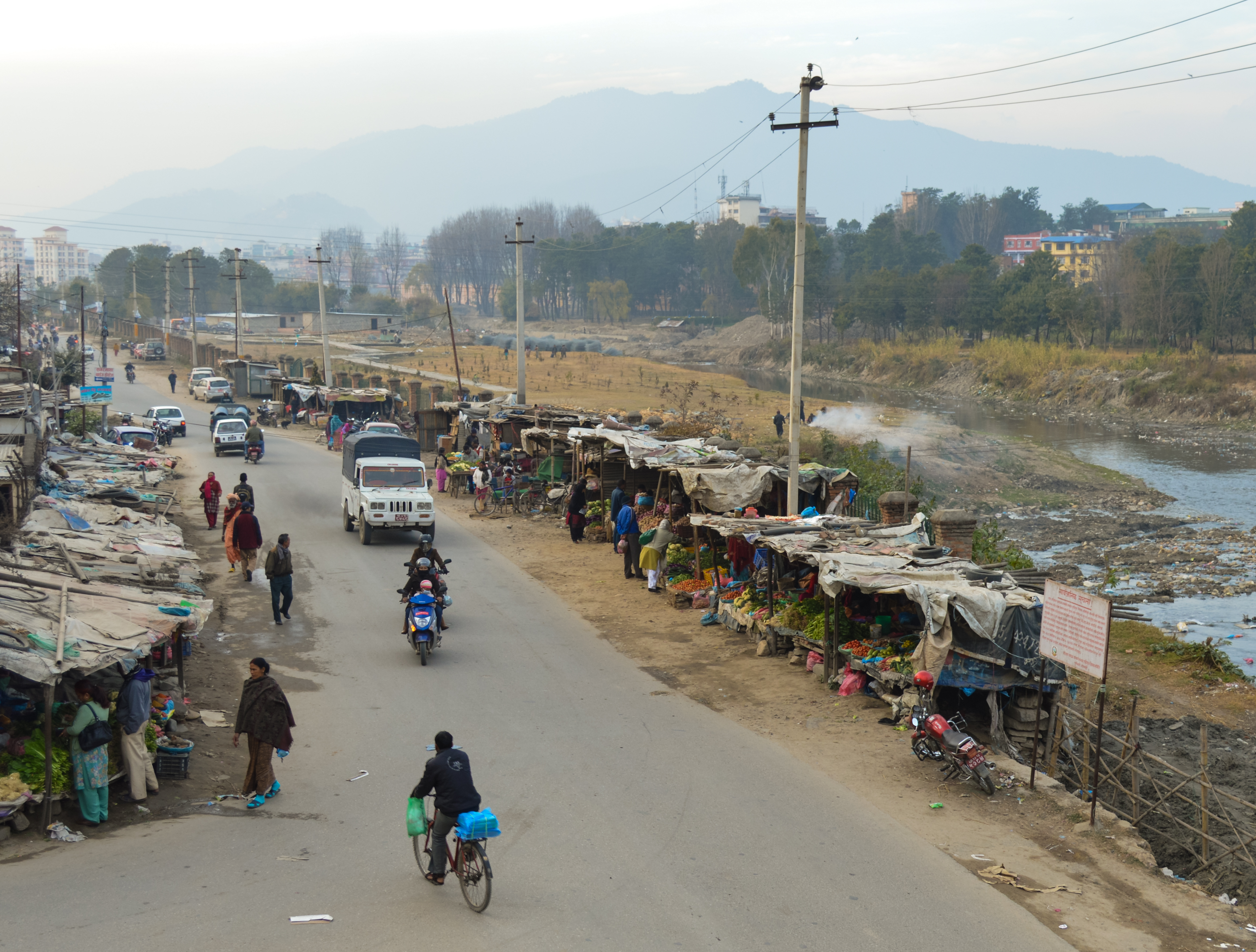 Market stalls on the Bagmati river